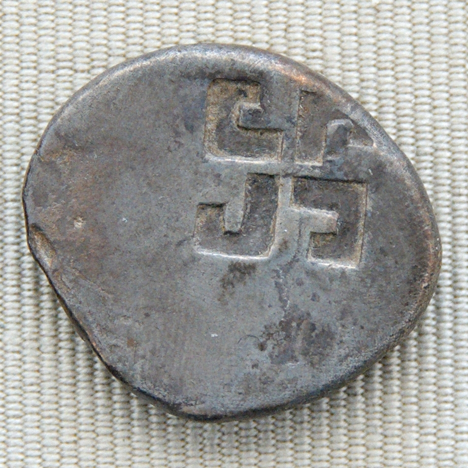 Silver tetradrachm issued by Corinth, ca. 515 BC, reverse: quadripartite incuse punch.